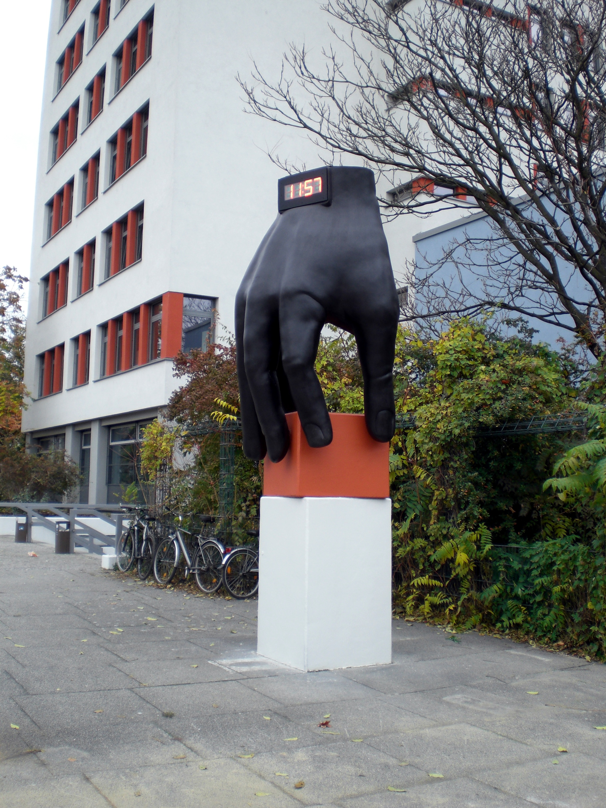 clock sculpture on the corner of Altonaer Straße / Lessingstraße in Berlin-Tiergarten, Germany